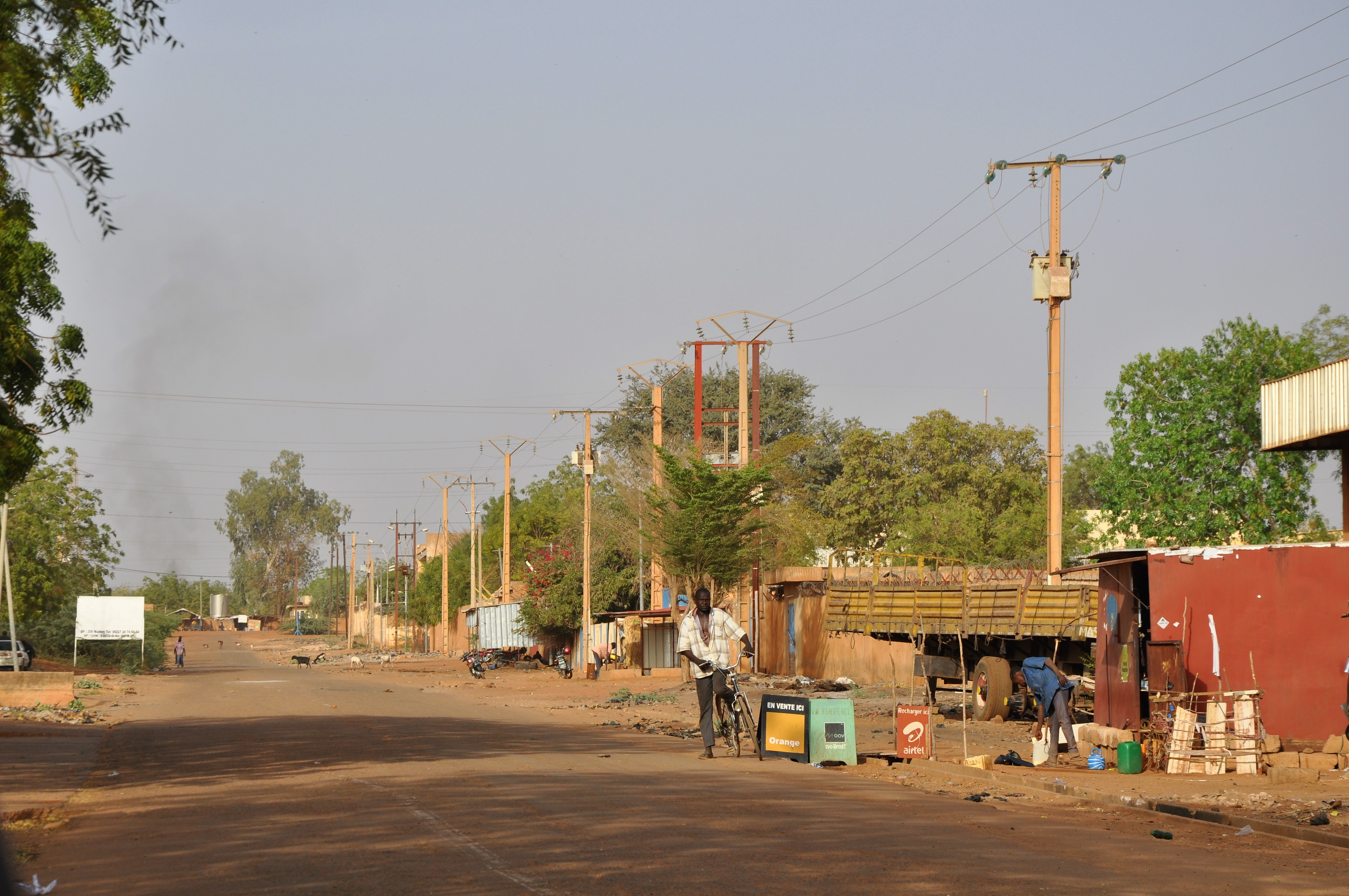 Avenue d'Arlit (Arlit Avenue), in the Industrial Zone in Niamey, Niger.